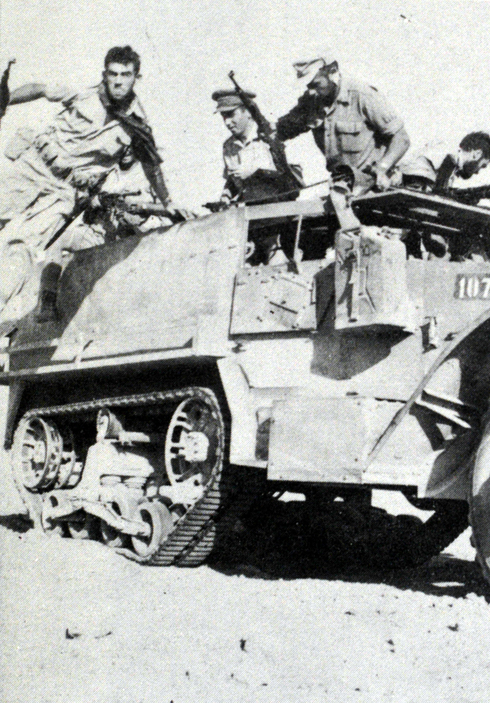 Palmach Infantry units go into action during the fight for Beersheba. 21 October 1948.